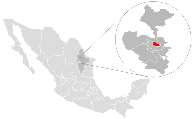 Map of location of Municipality of San Nicolás de los Garza (red) within the state of Nuevo León, México. Dark gray surrounding the Municipality shows the Monterrey Metropolitan Area. Map designed by Alex Covarrubias.